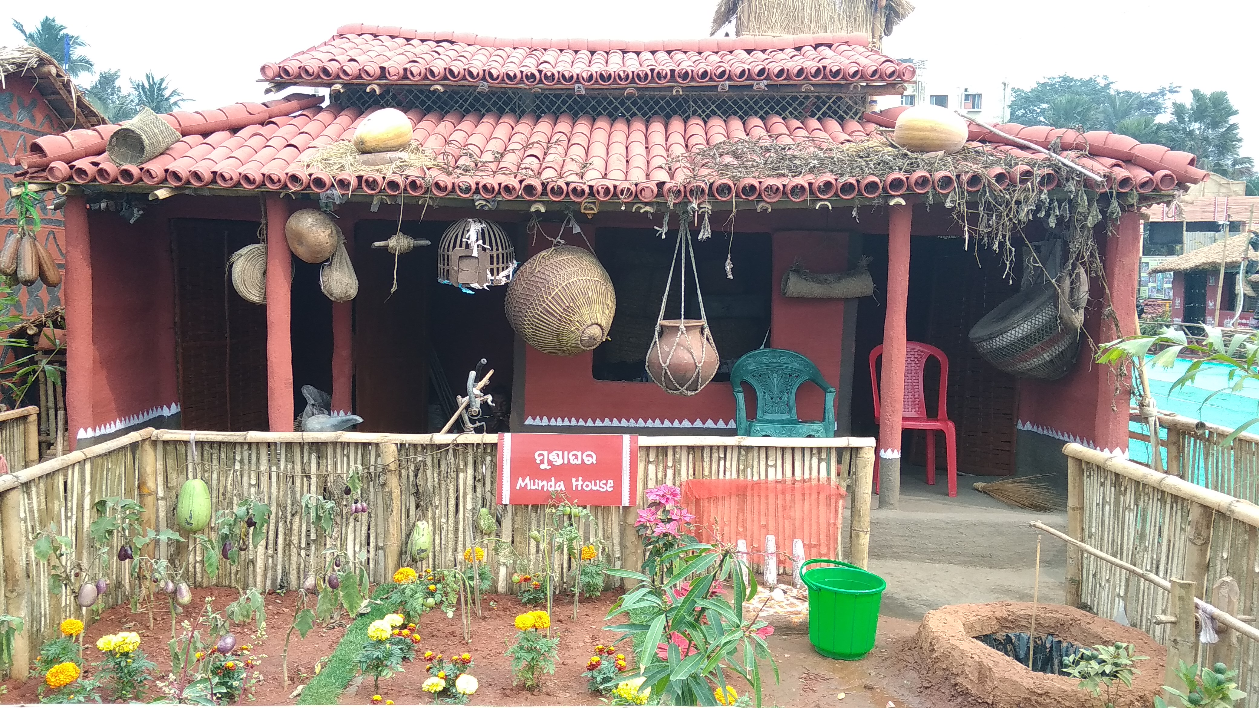 This photo has been taken in the country: India